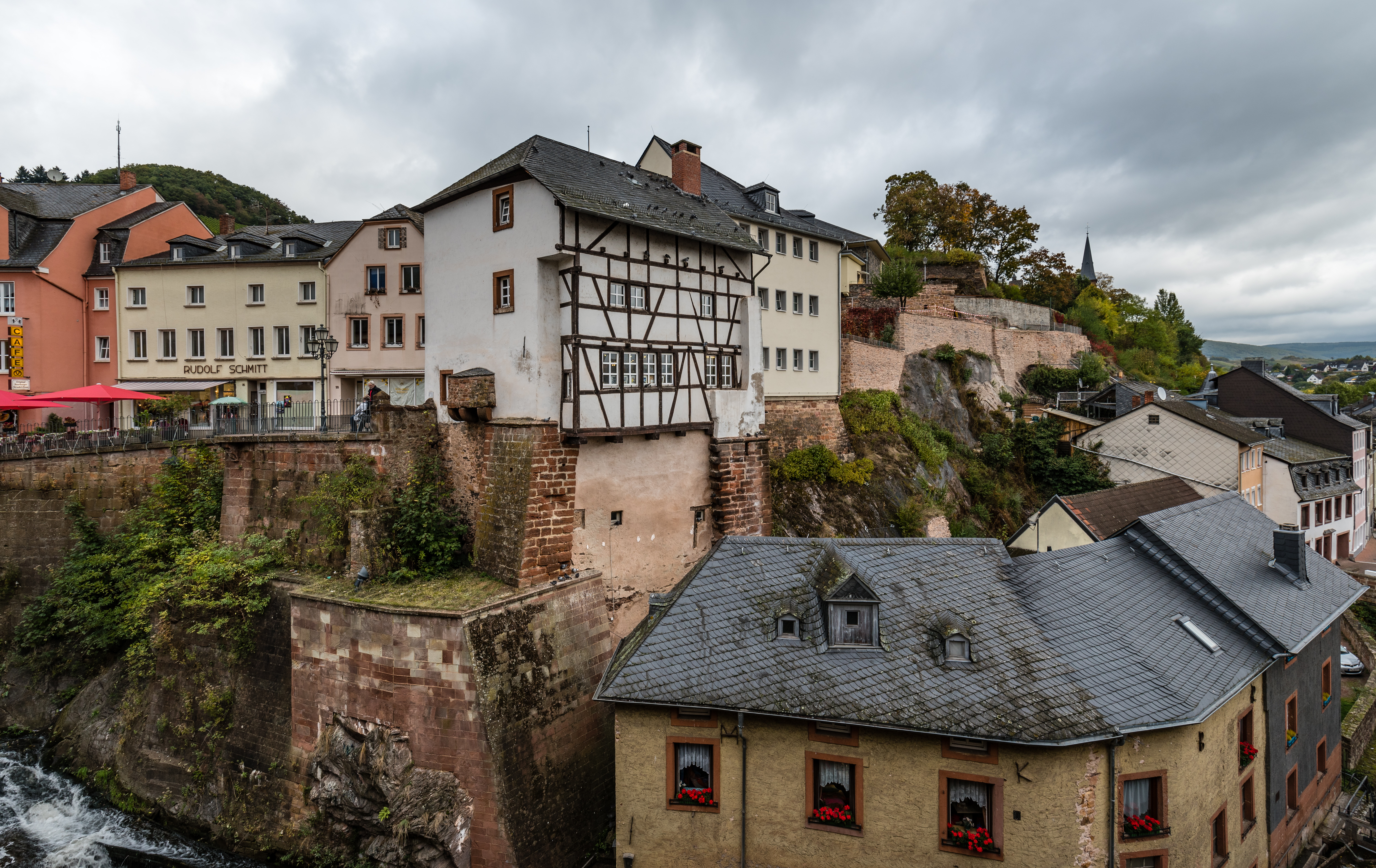 Town view of Saarburg near water fall of Leukbach